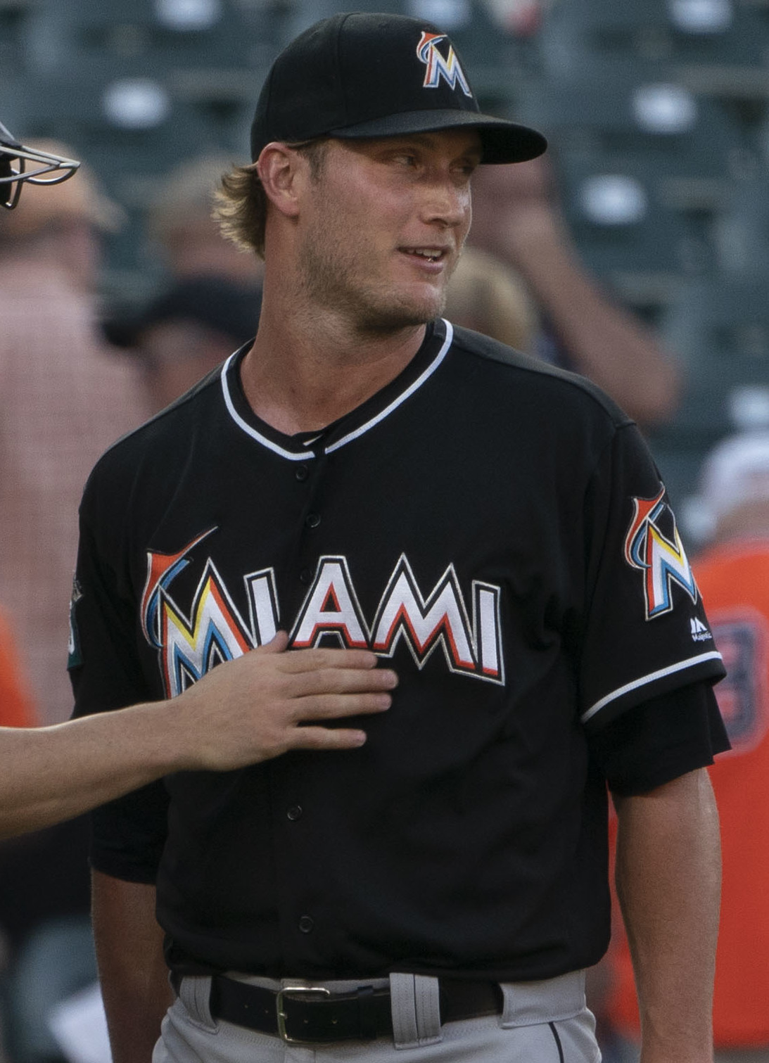 J. T. Realmuto (left) and Drew Streckenrider of the Miami Marlins at Camden Yards in Baltimore during a 2018 game against the Baltimore Orioles